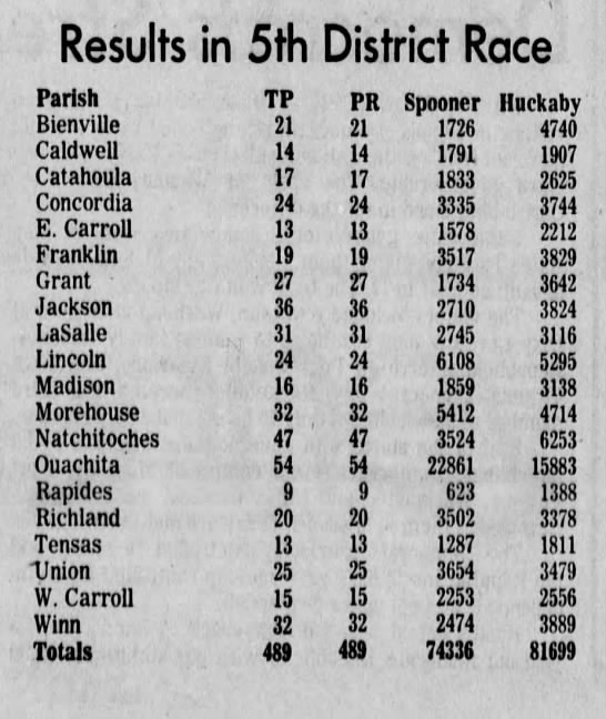 Table printed in the Alexandria Town Talk listing election day totals from each parish.